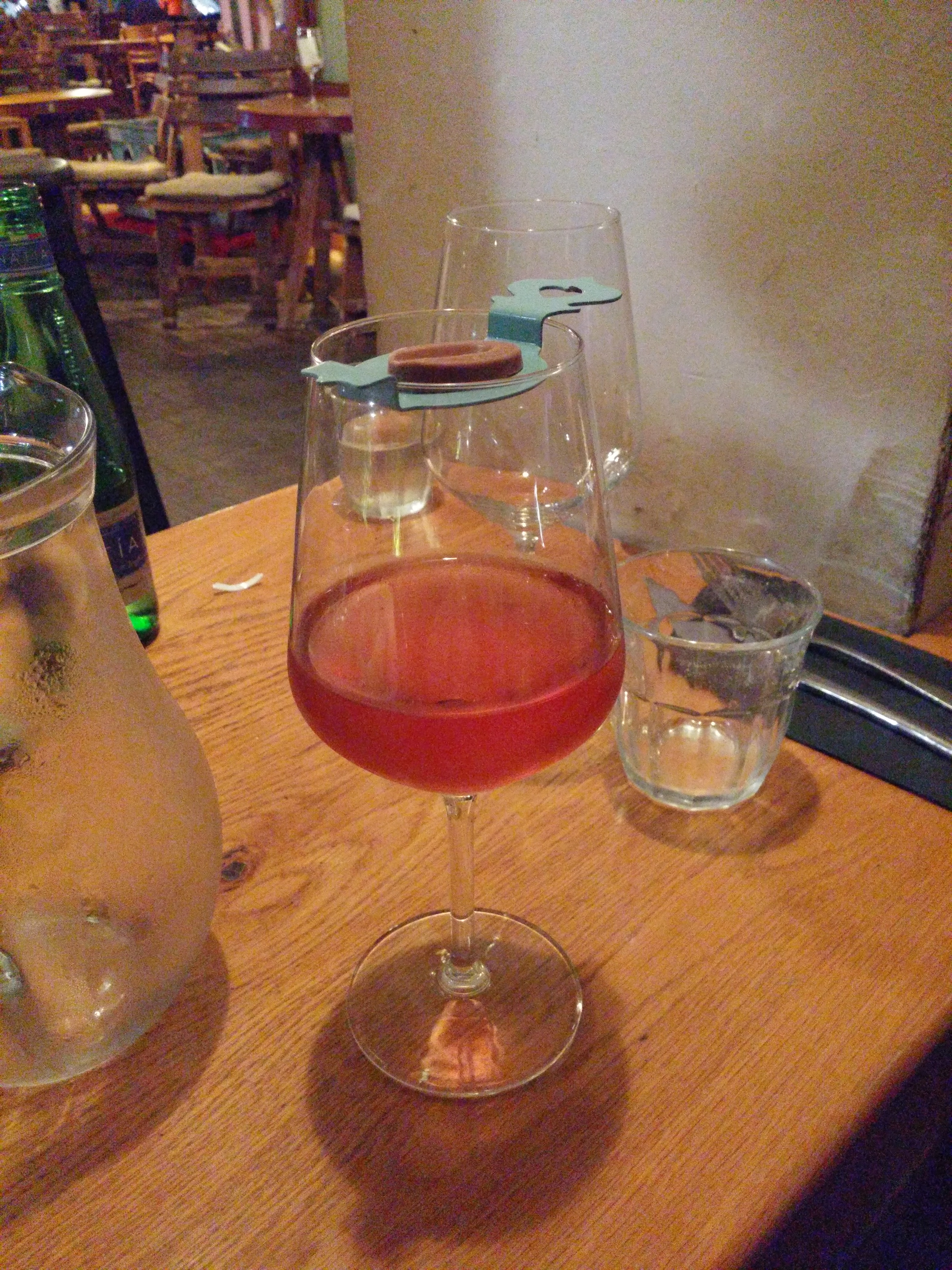 Pink wine in a glass